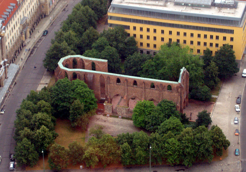 Hulk of the Franziskaner-Klosterkirche (franciscan cloister church) in Berlin, seen from TV tower